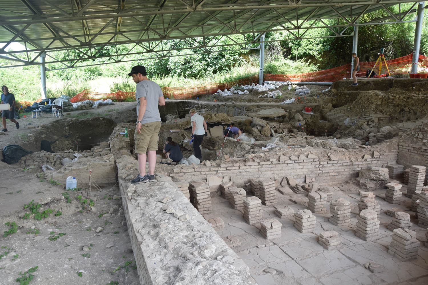 View of Roman bath excavations in 2016 from Eastern side, one can observe the pilae in hypocaust of the tepidarium. The excavation was directed by Prof. Jane Whitehead of Valdosta State University